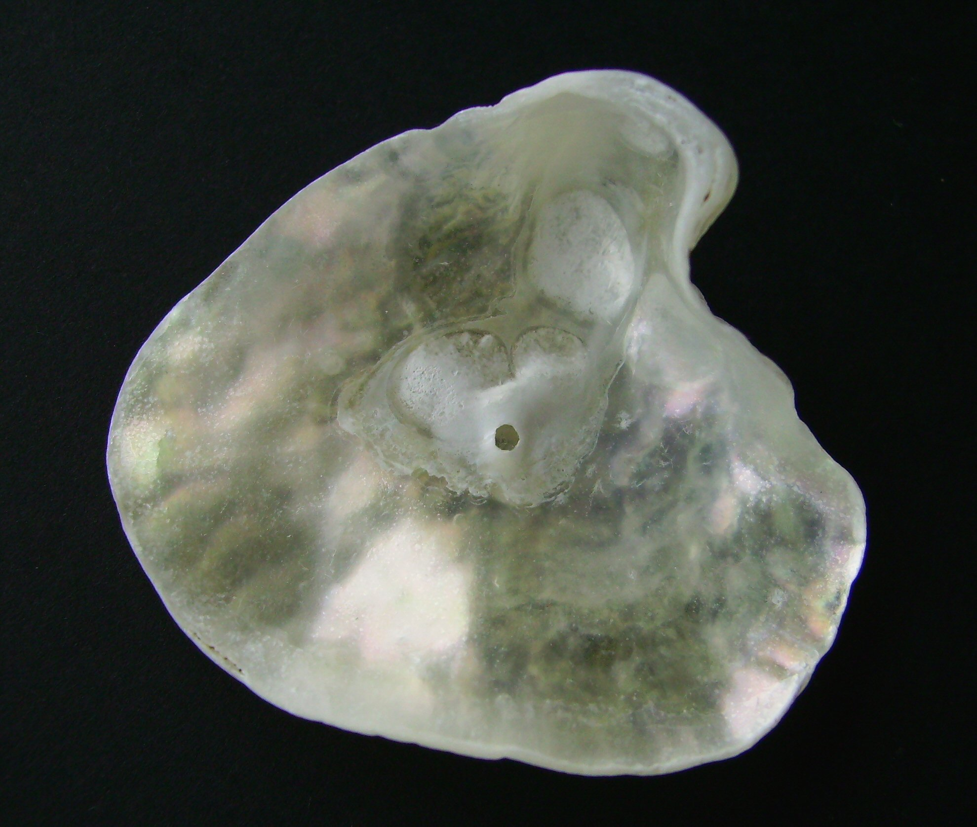 Anomia trigonopsis (inside) from Pakiri Beach, New Zealand. This work has been released into the public domain by its author, Graham Bould. This applies worldwide. In some countries this may not be legally possible; if so: Graham Bould grants anyone the right to use this work for any purpose, without any conditions, unless such conditions are required by law.